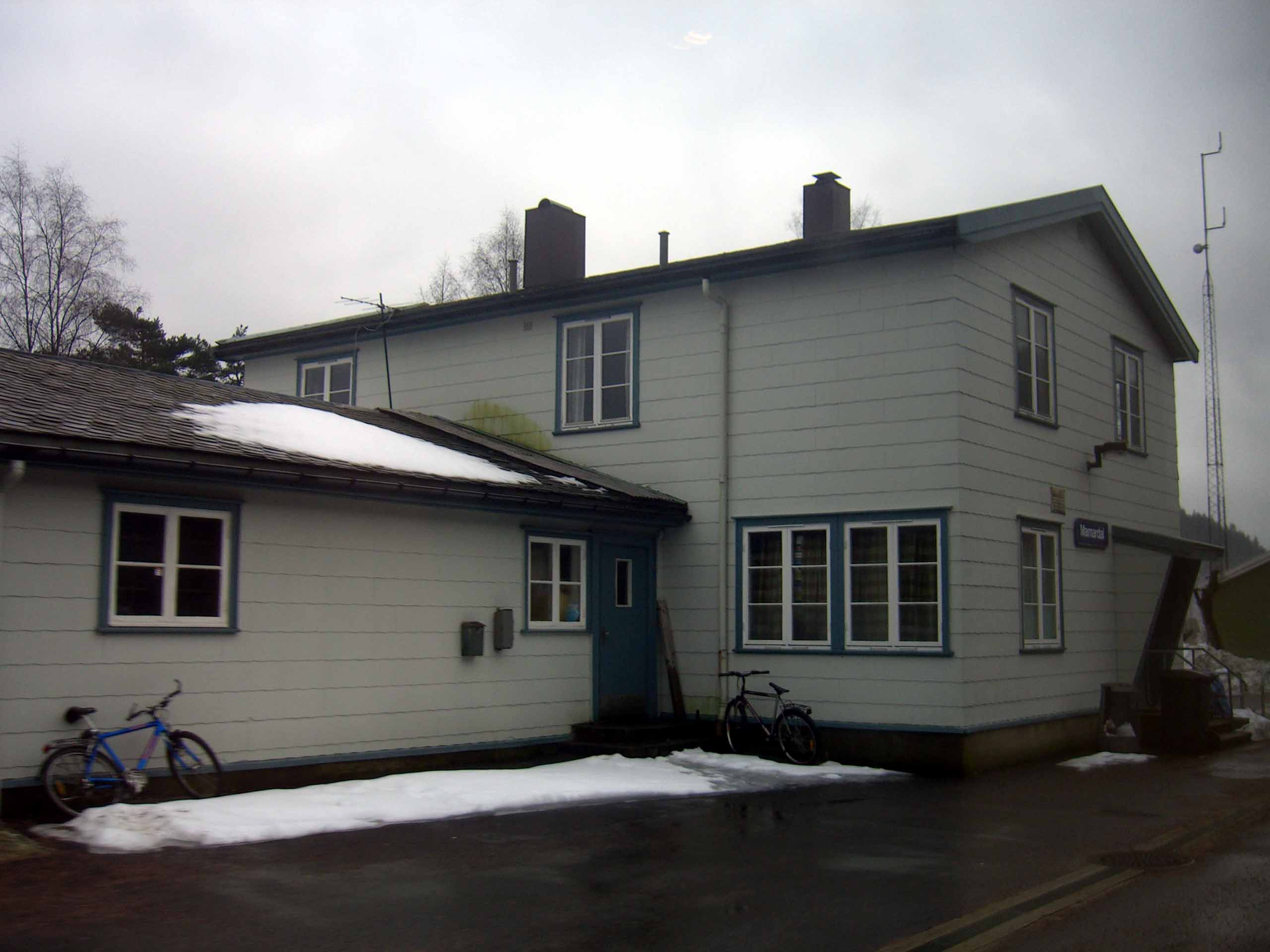 Marnardal Station on Sørlandsbanen, in Marnardal, Norway